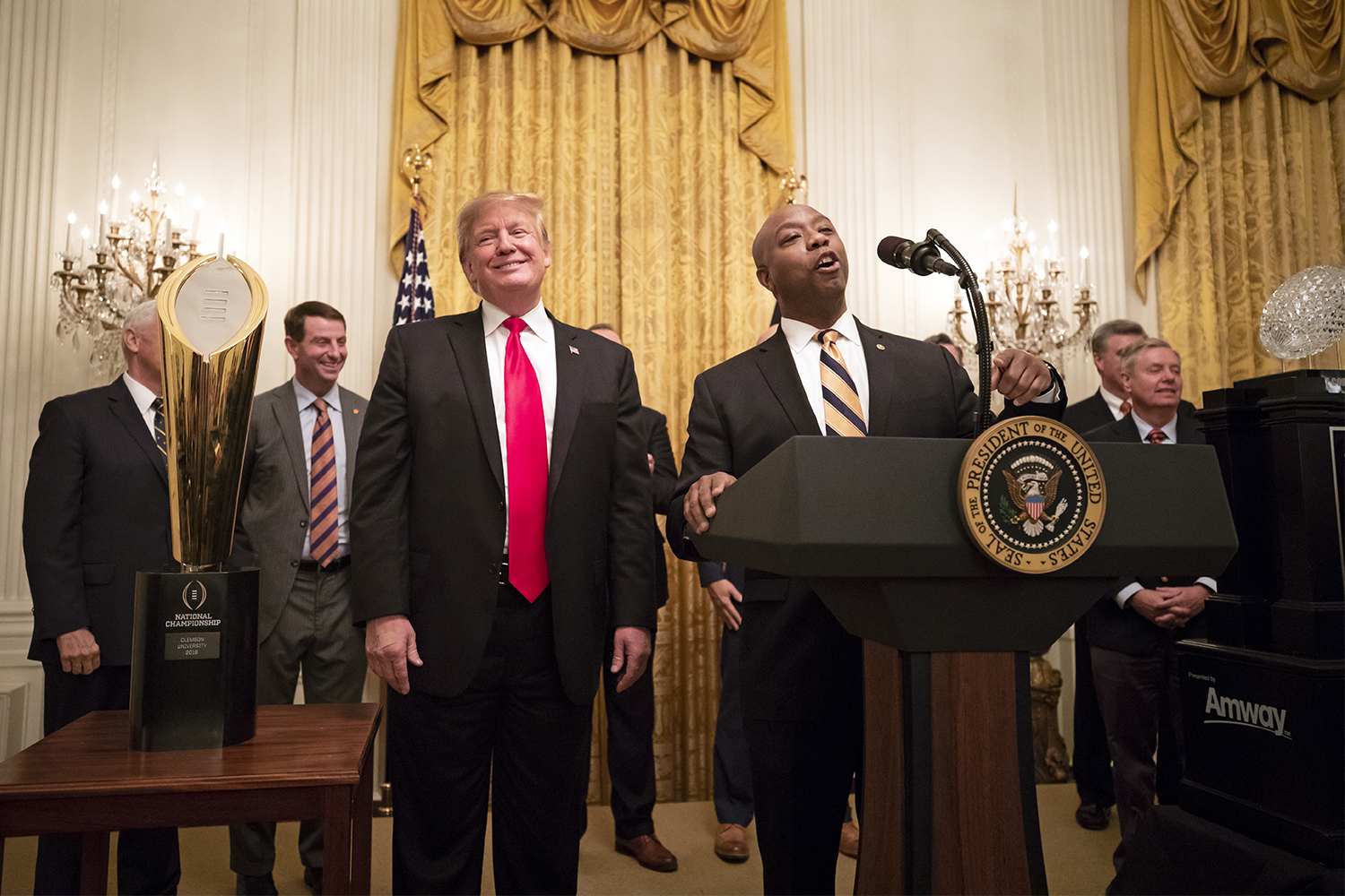 Senator Tim Scott (R-SC), joined by President Donald J. Trump, delivers remarks to the Clemson players during a celebration for the 2018 NCAA College Football National Champions the Clemson Tigers Monday, January 14, 2019, in the East Room of the White House. (Official White House Photo by Joyce N. Boghosian)